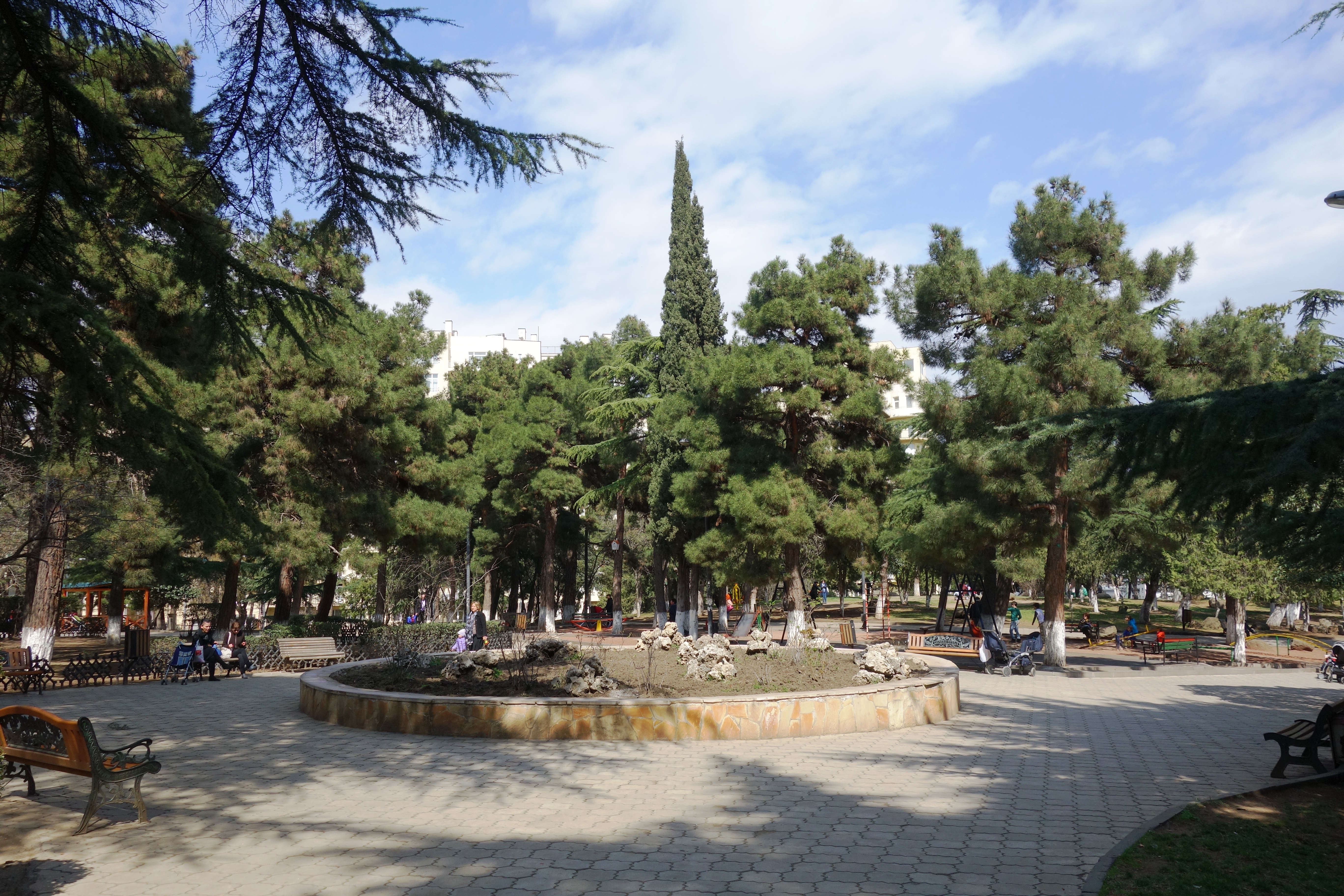 Vera Park, Tbilisi, Georgia